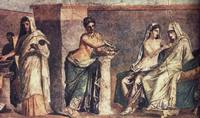 Roman fresco; Vatican Museum, Vatican City: Aldobrandini Wedding (1st century BC)